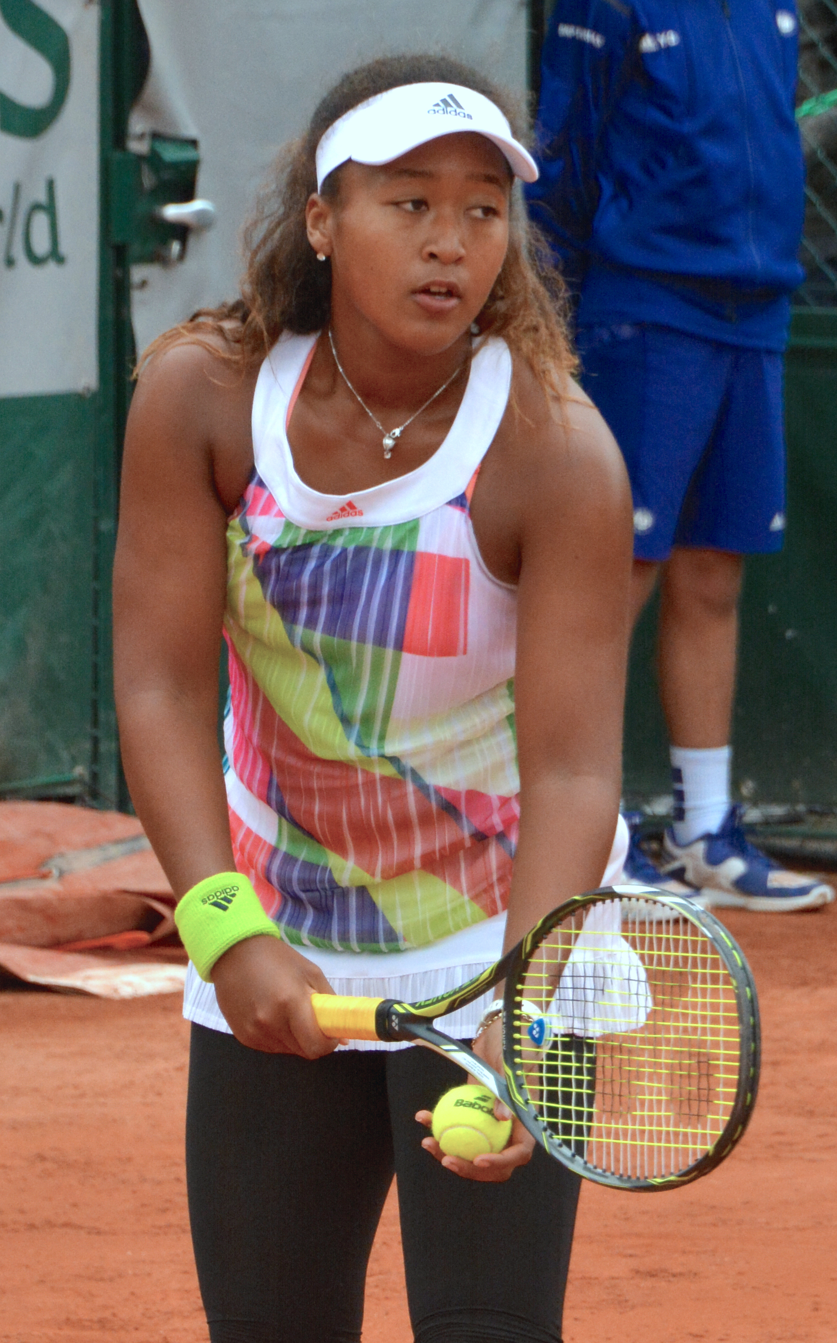 Day 2 of Roland Garros 2016.